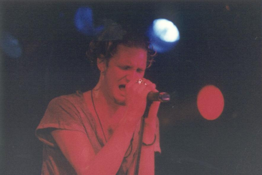 Layne Staley playing with Alice in Chains at The Channel in Boston, MA.